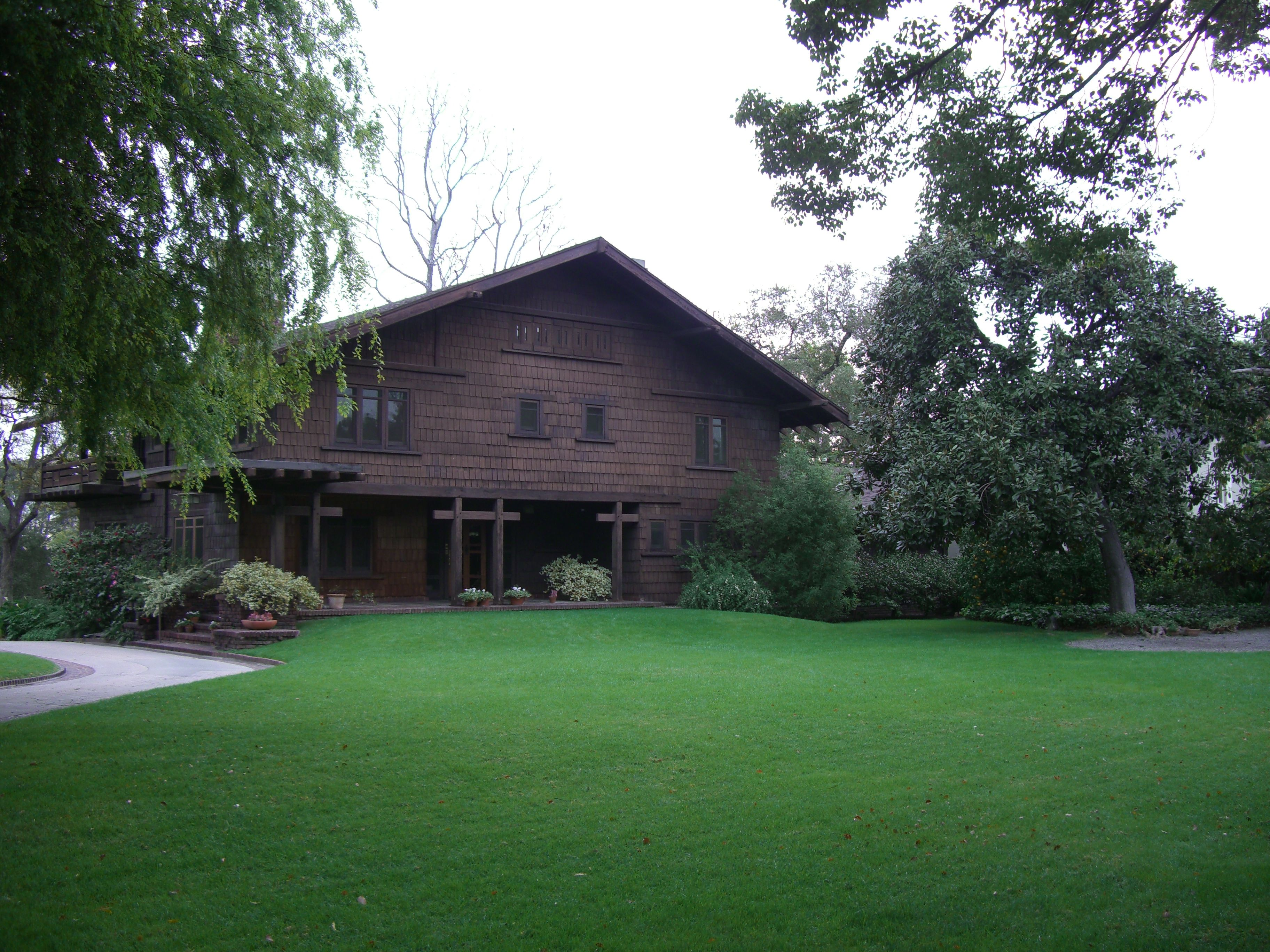 view of the Greene & Greene Spinks House (Pasadena, CA) from the front yard facing southwest